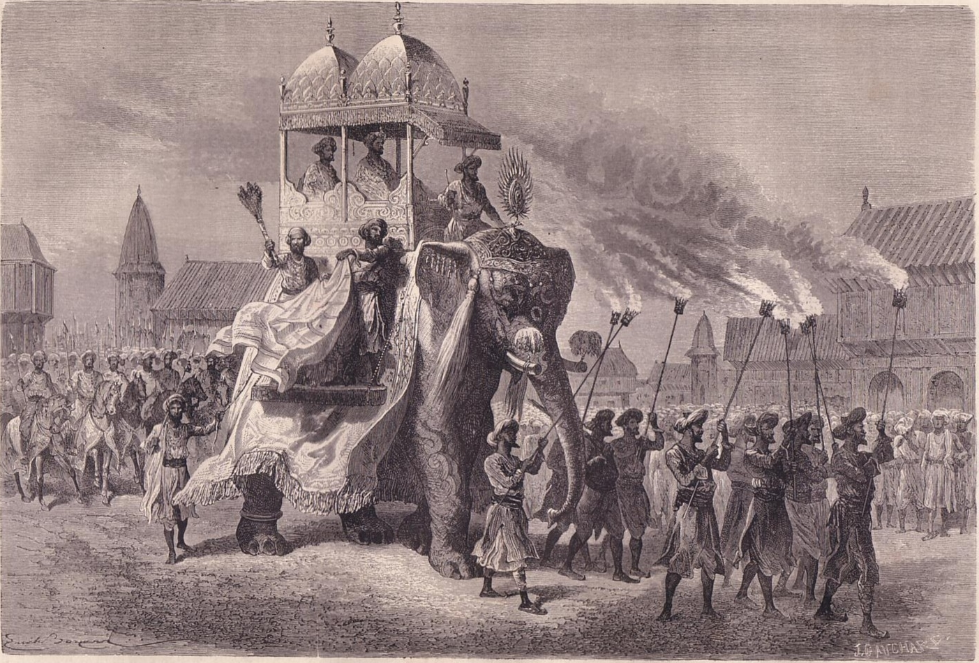 Baroda king on the Great Sowari solemn royal procession. (Engravings from a similar set in other publications, 1872-1878)